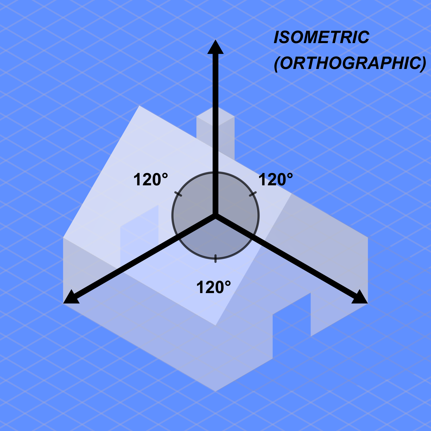 Isometric perspective.